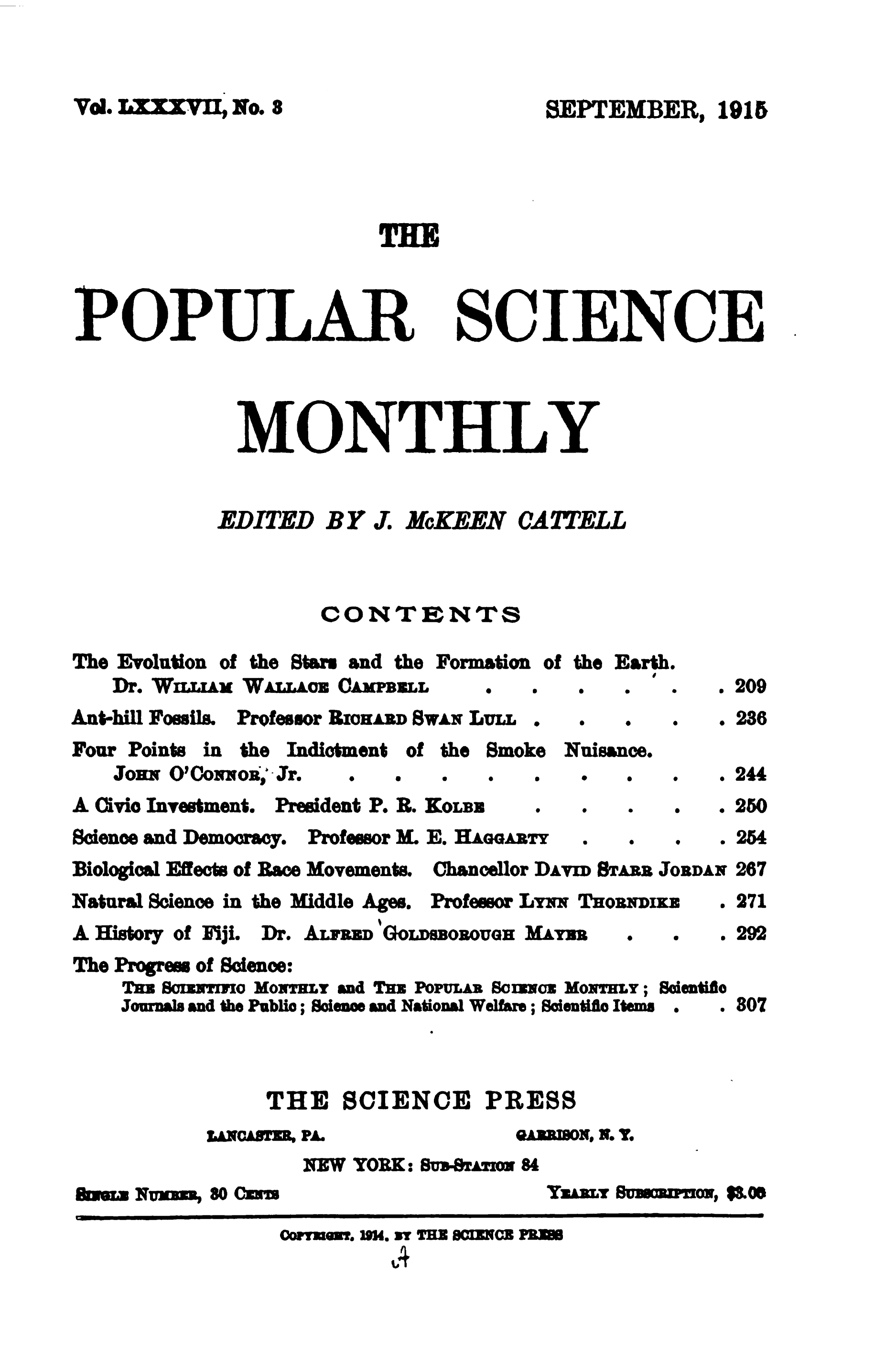 Title page of the last issue of Popular Science Monthly published as a scientific journal. (May 1872 to September 1915). The journal became Scientific Monthly and was published until 1958. The title was sold to Modern Publishing and their World's Advance assumed the title in October 1915 and is still in print as of 2008.